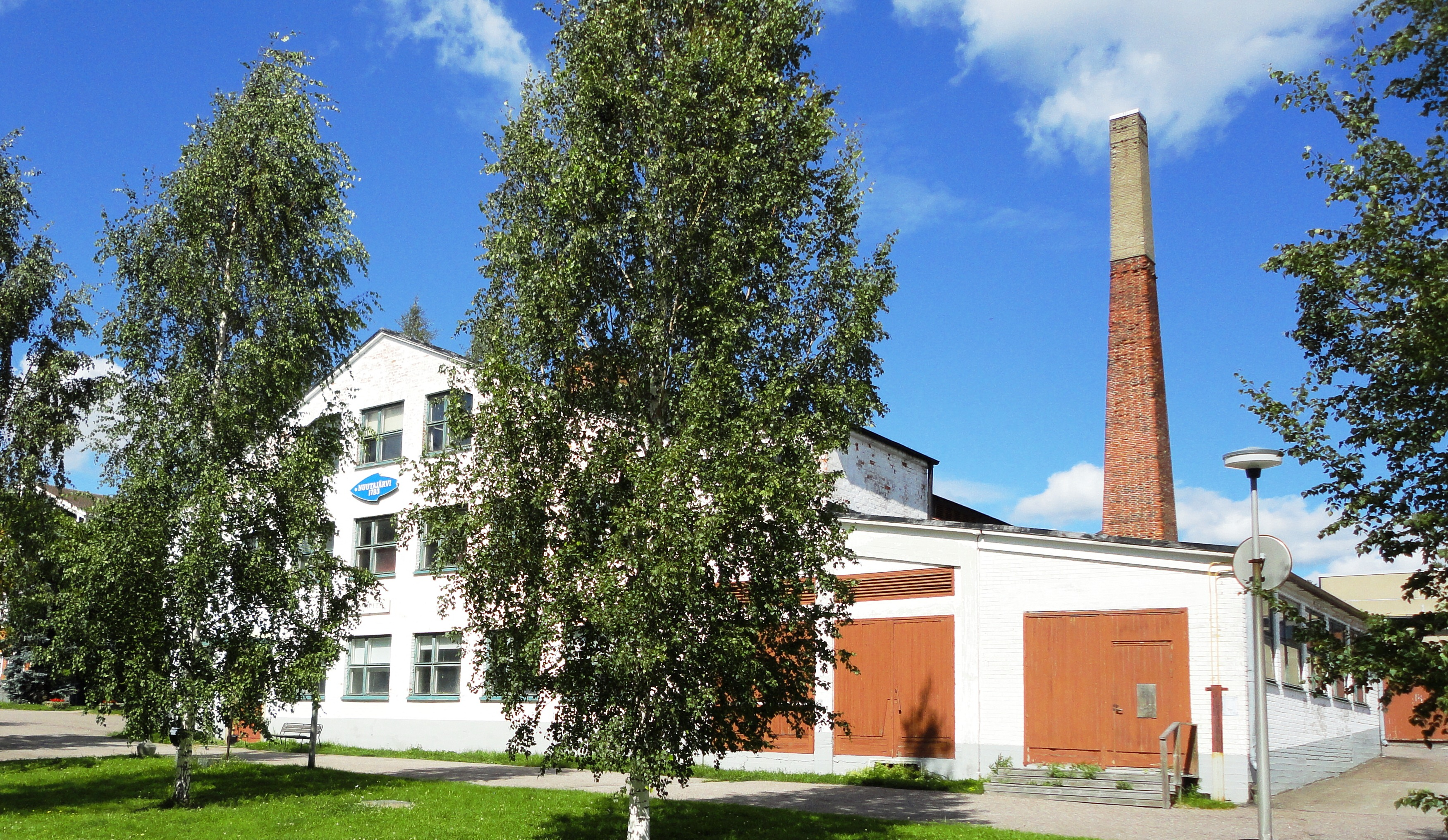 Nuutajärvi glass factory, Finland.